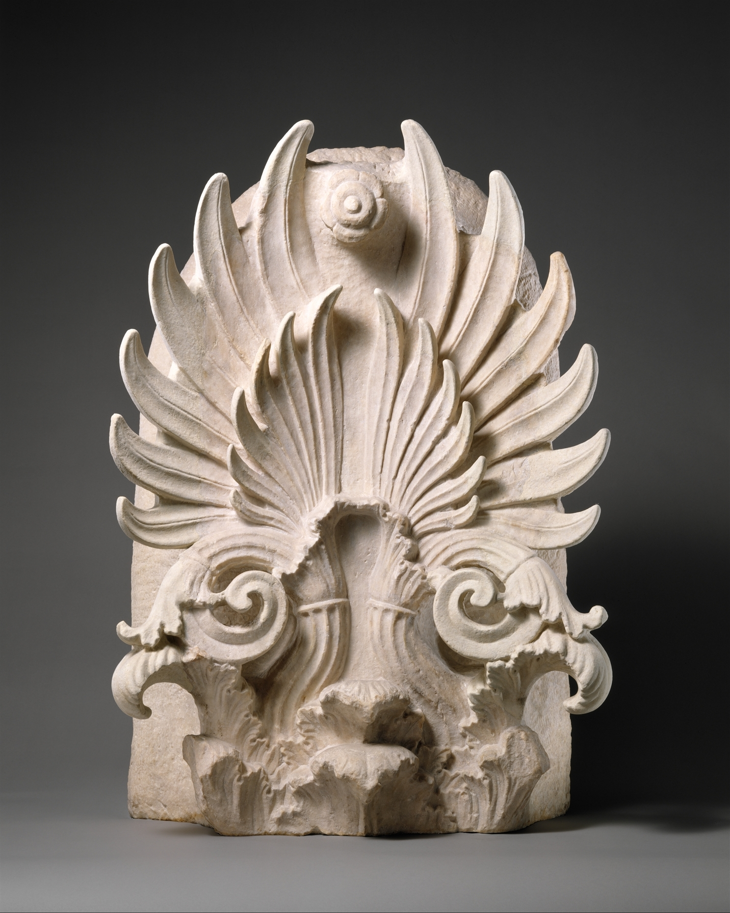 Greek, Attic; Akroterion of a gravestone with palmette; Stone Sculpture